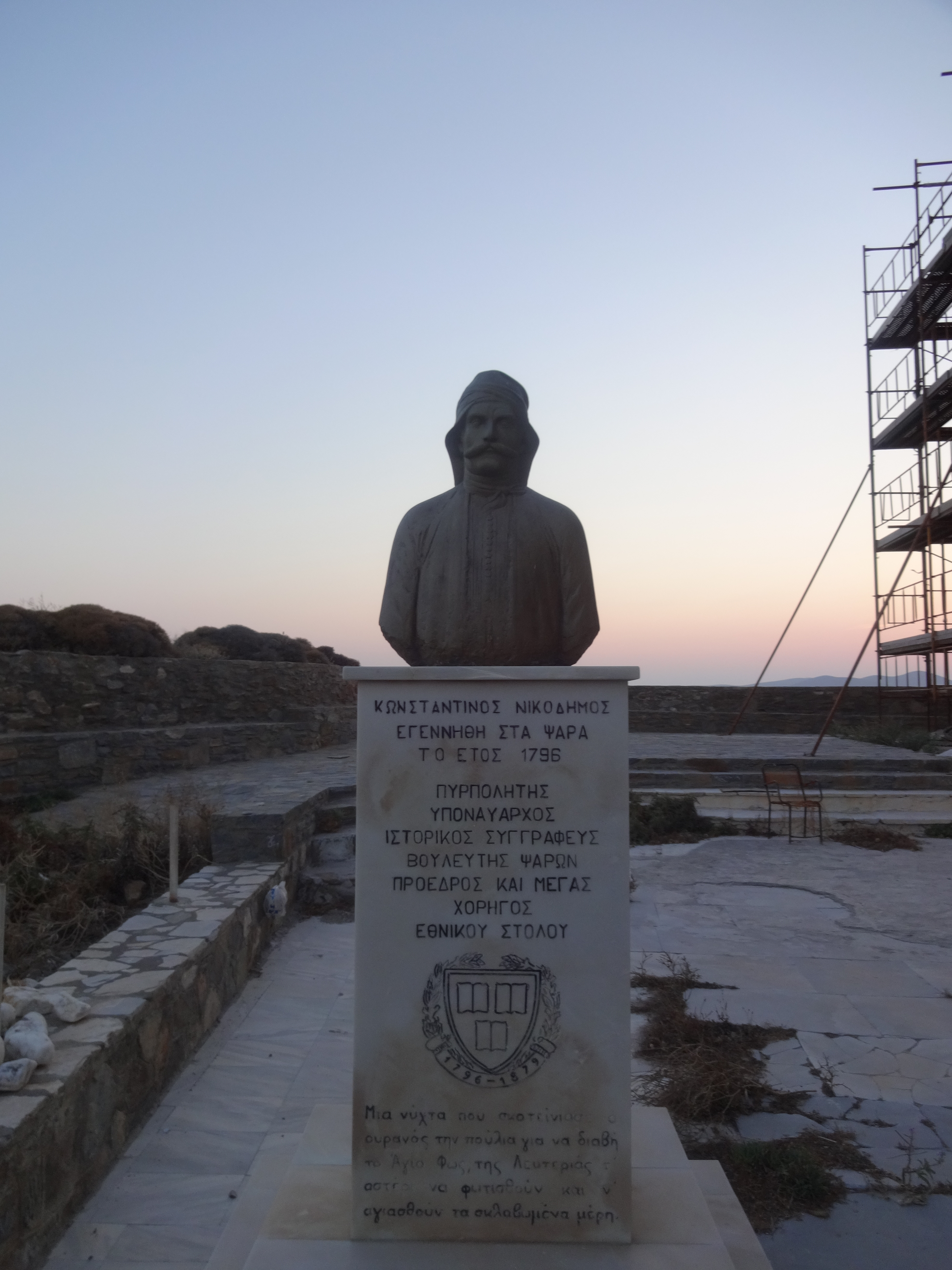 Bust of cap. Konstantis Nikodimos (1796-1857)